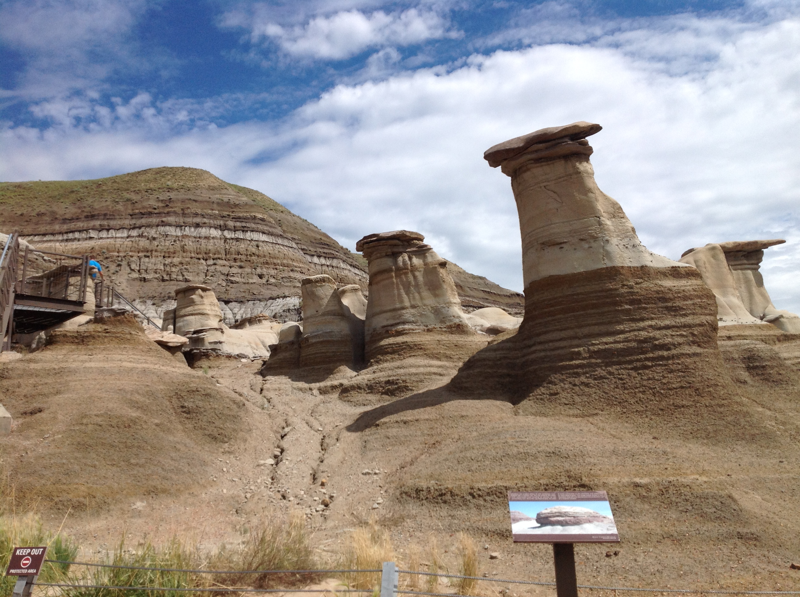 Hoodoos of Drumheller, Alberta